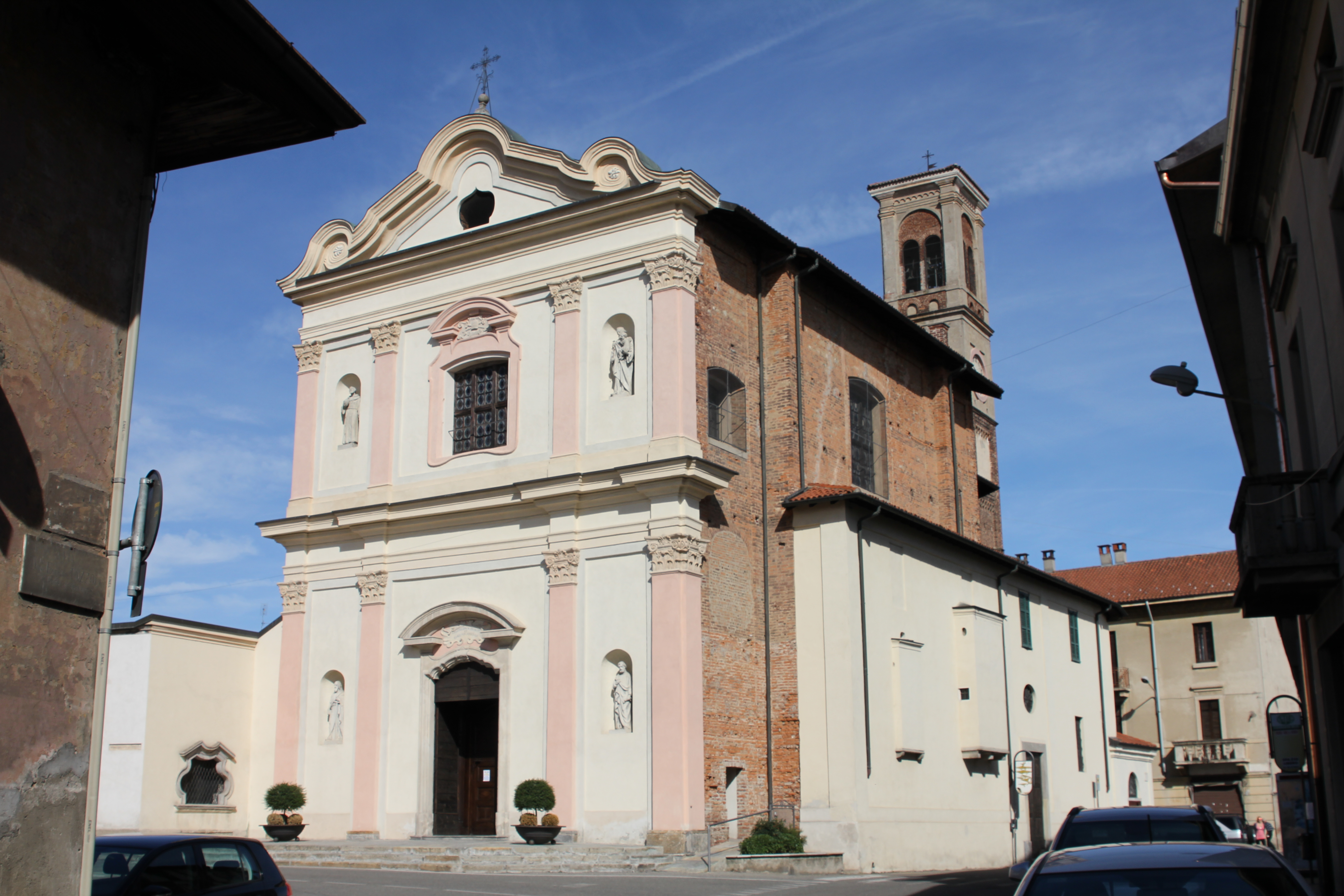 Chiesa vecchia dei santi apostoli Pietro e Paolo